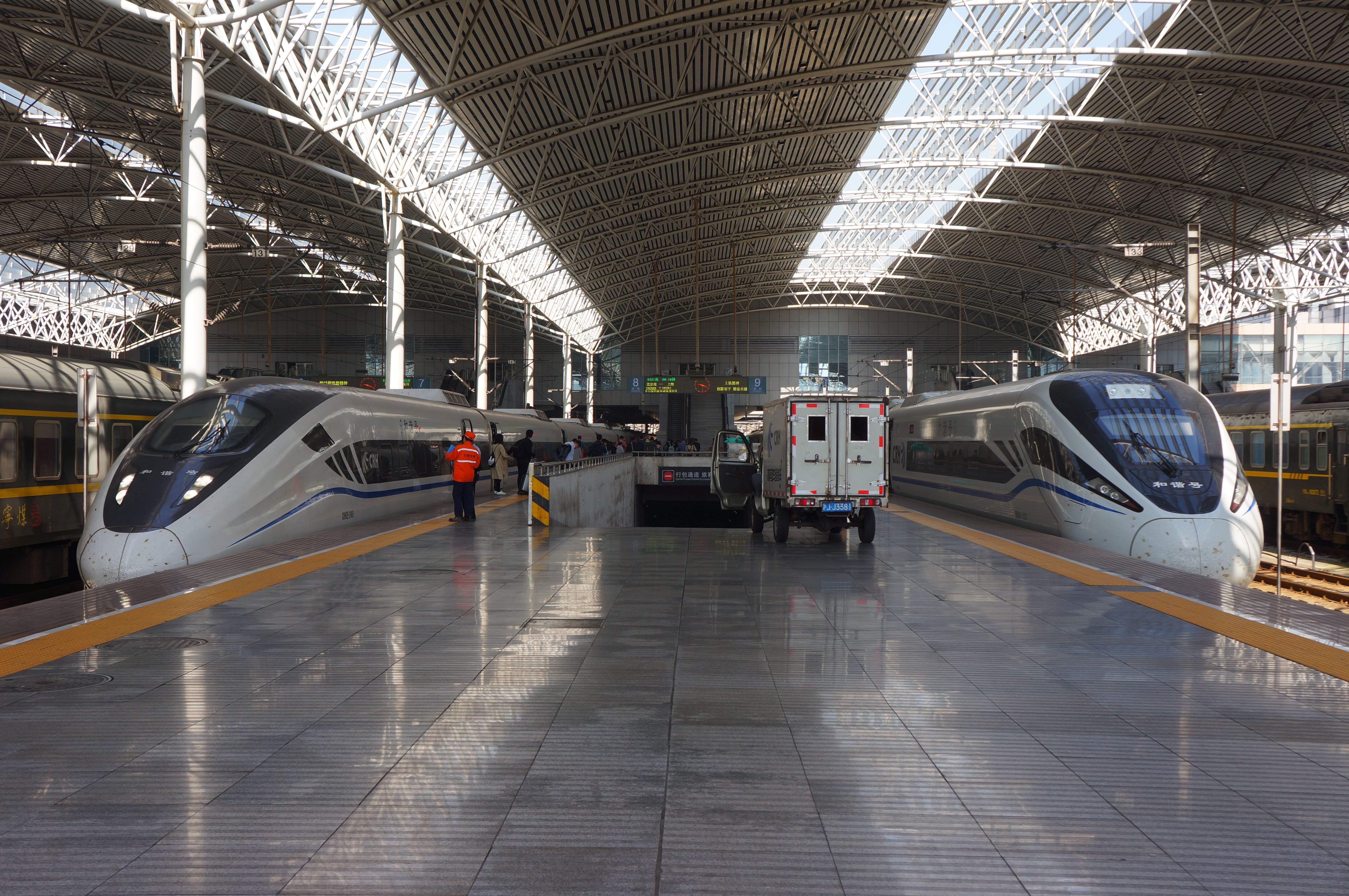 201704 CRH2E-NG (D321) and CRH1E-NG (last SR operated D311) at Shanghai Station